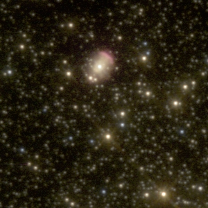 HST (WFPC2)